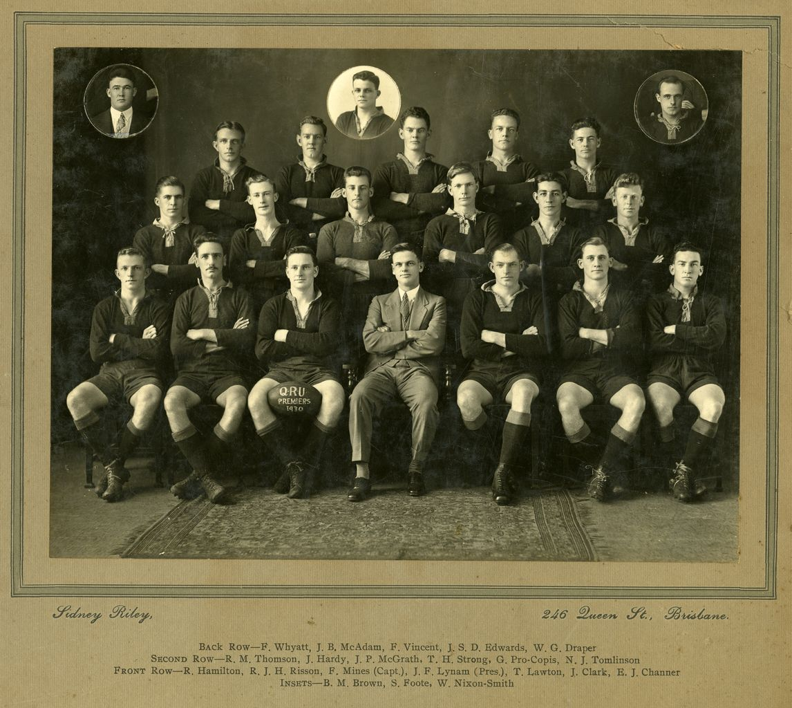 Group photo of the 1930 University of Queensland Rugby Union football club QRU Premiers. Pictured: Back row—F. Whyatt, J.B. McAdam, F. Vincent, J.S.D. Edwards, W.G. Draper Second row—R.M. Thomson, J. Hardy, J.P. McGrath, T.H. Strong, G. Pro-Copis, N.J. Tomlinson Front row—R. Hamilton, R.J.H. Risson, F.Mines (Capt.), J.F. Lynam (Pres.), T.Lawton, J.Clark, E.J. Channer Insets—B.M. Brown, S.Foote, W. Nixon-Smith.